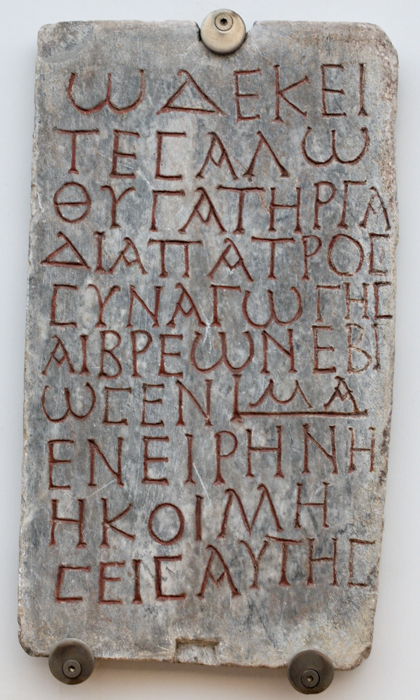 Funerary inscription of Salo, daughter of Gaudias. Gaudias was pater of the so-called Synagogue of the Jews, which was supposed to be the most ancient in Rome. Stone, 3rd century CE. From the catacombs of Monteverde in Rome.